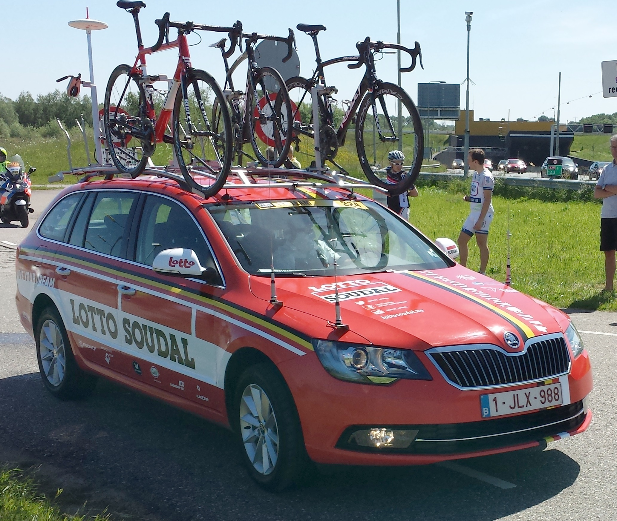 Lotto Soudal car at the World Ports Classic 2015